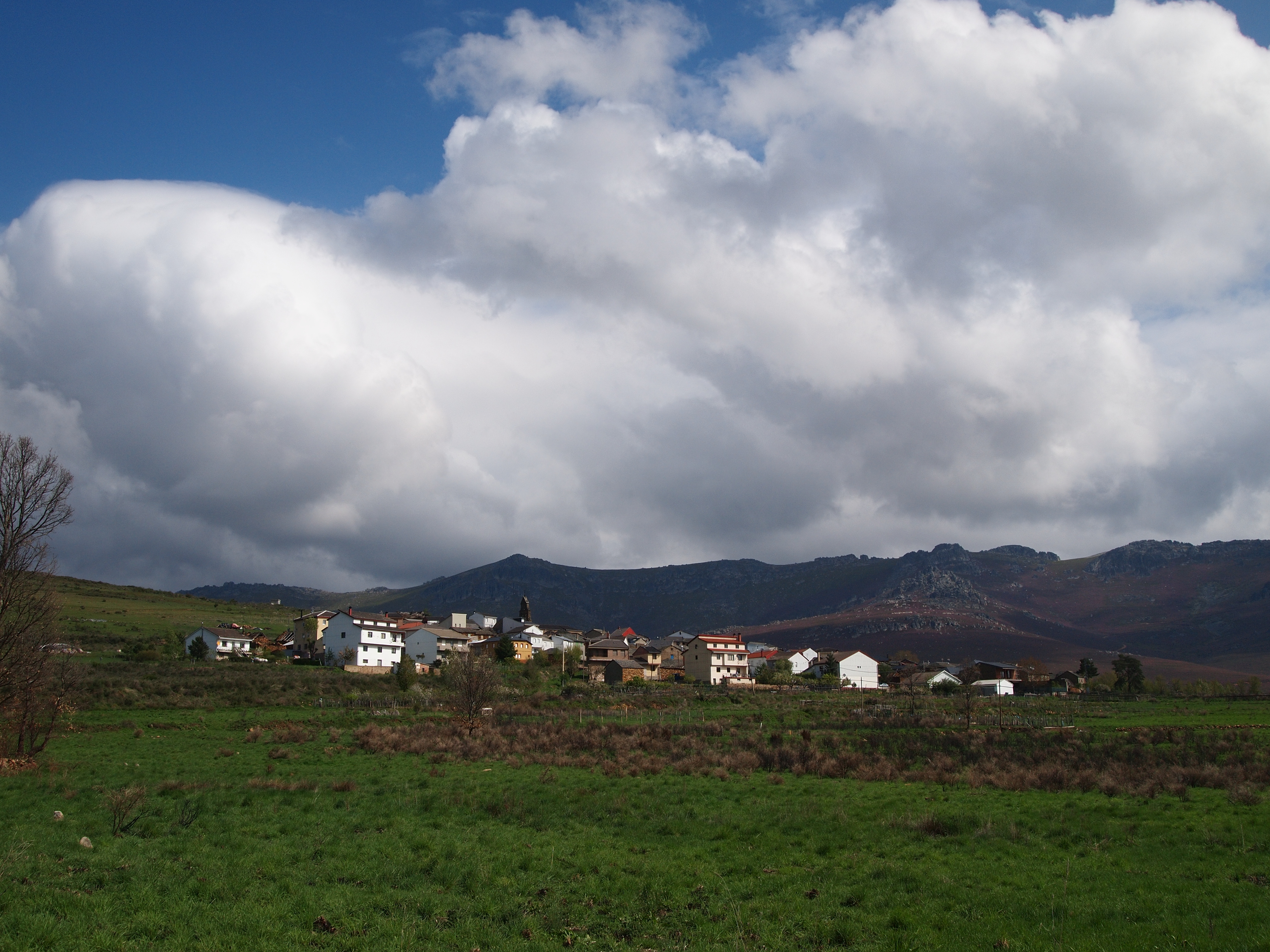 The spanish village of Manzaneda, in the municipality of Truchas (province of León)